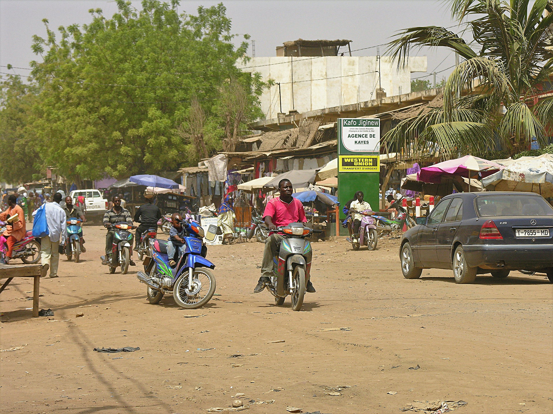 In a street of Kayes. Mali This is an image with the theme "Africa on the Move or Transport" from: Mali